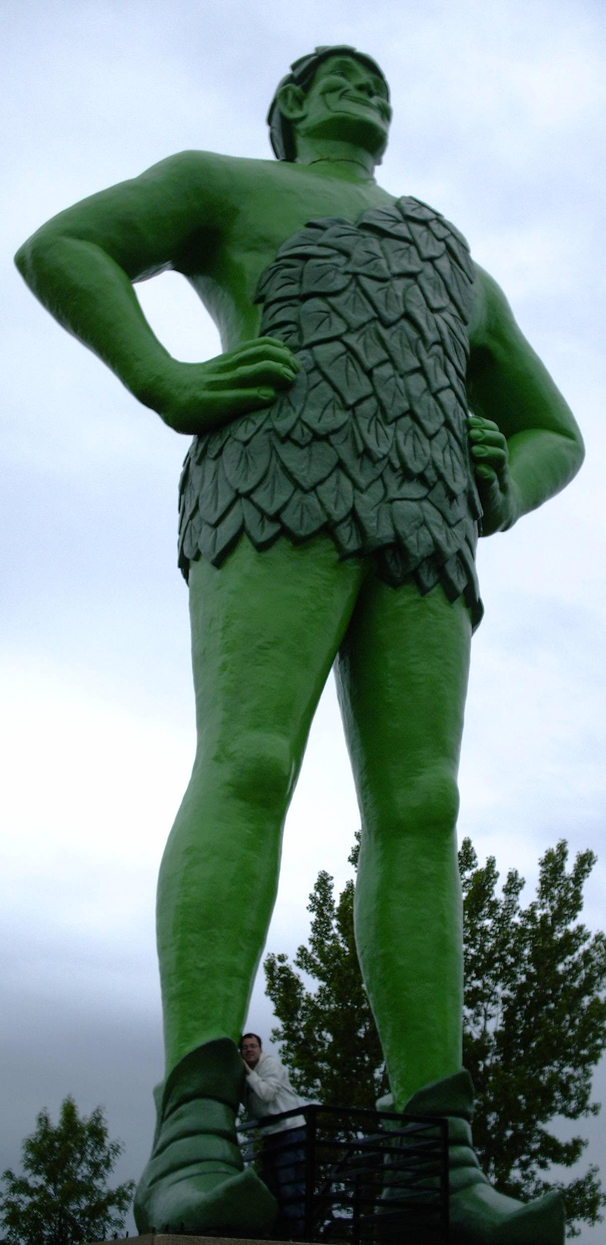 A statue of the Jolly Green Giant towers above a man at its foot in Blue Earth, Minnesota